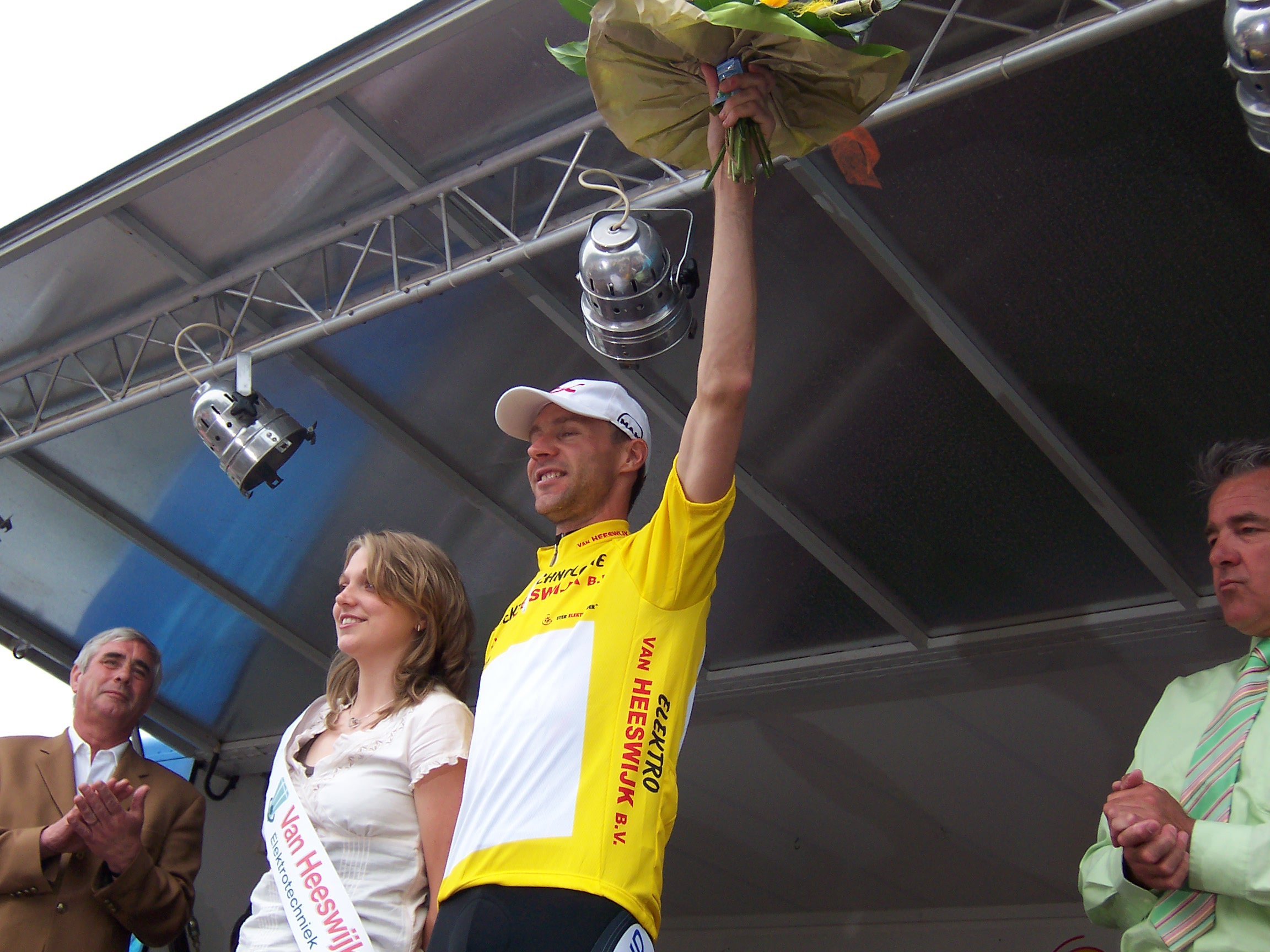 Jens Voigt in the Ster Elektrotour 2006 in Schimmert.